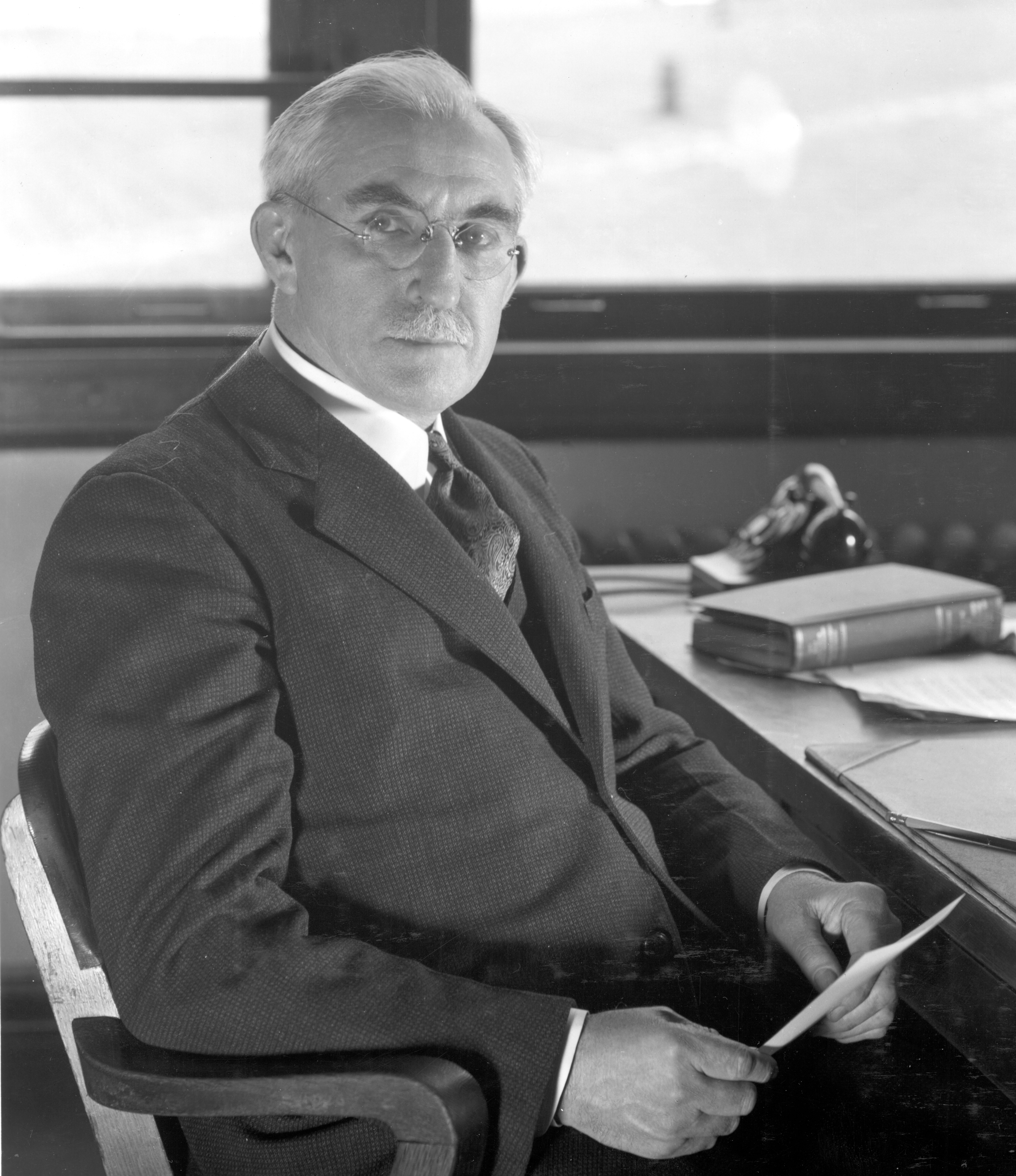 Photograph of Oscar Edward Meinzer sitting at his desk